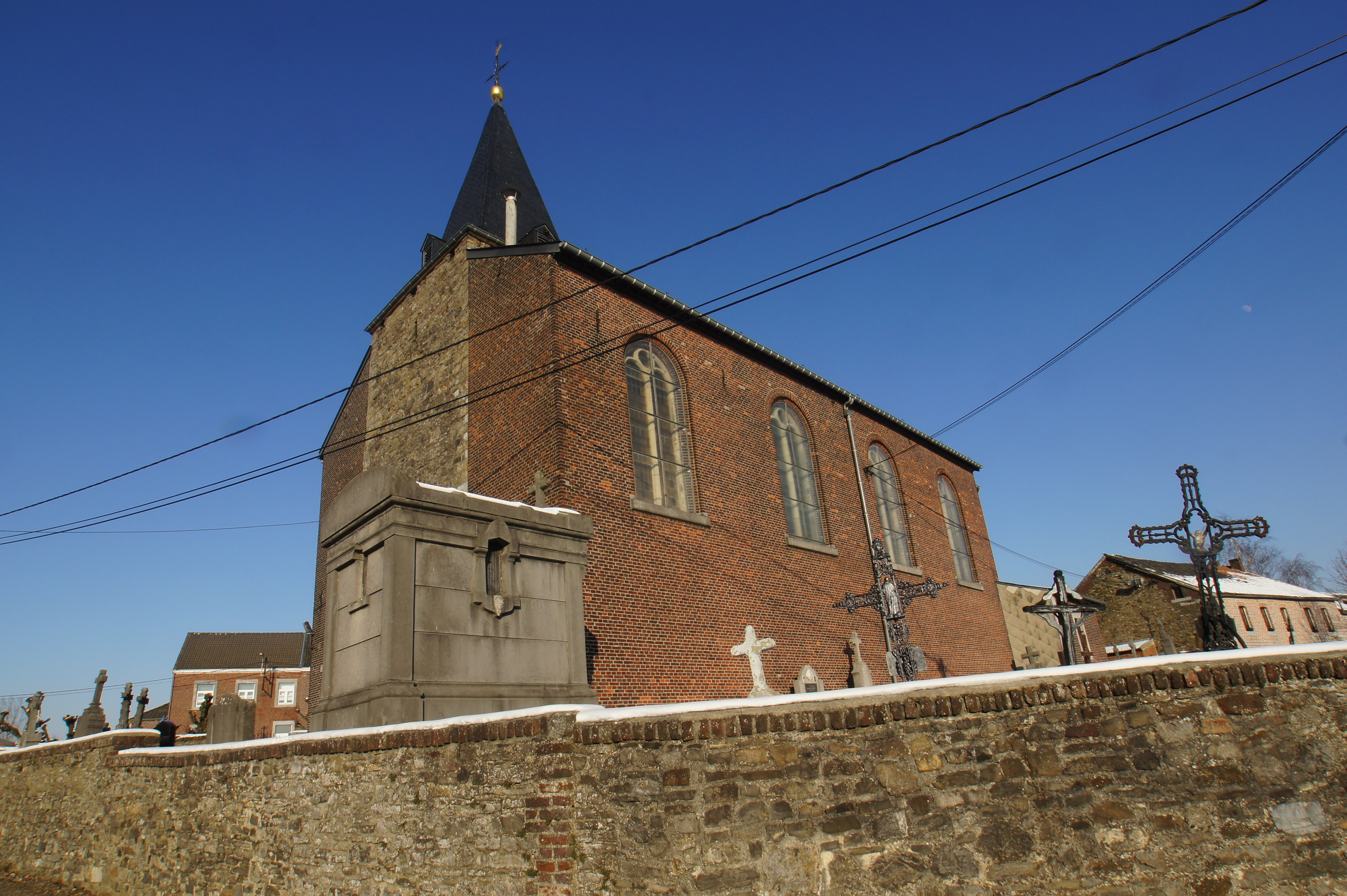 Dalhem (Saint-André (Belgique)), Belgium: Saint Andrew's Church